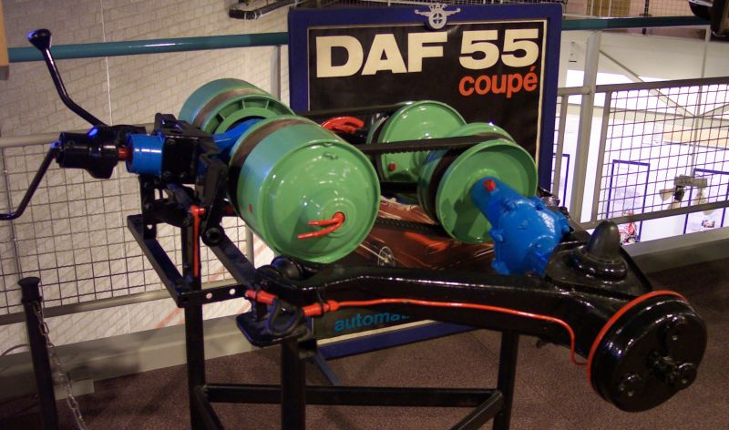 DAF Powertrain with Variomatic gear, using a continuously variable transmission.